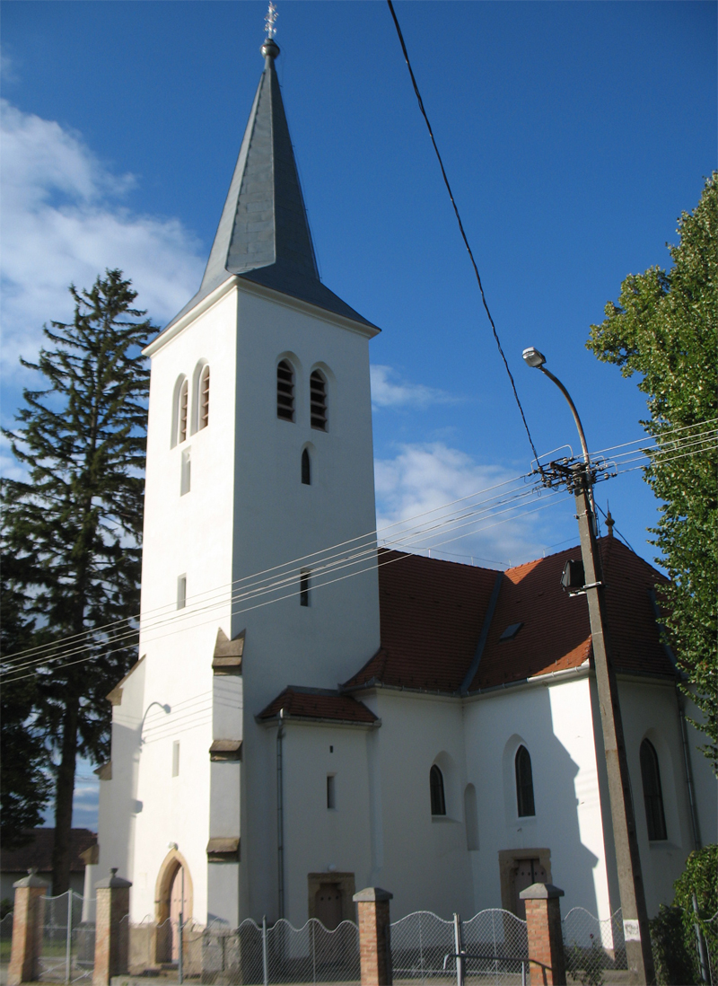 Church of Nagylóc